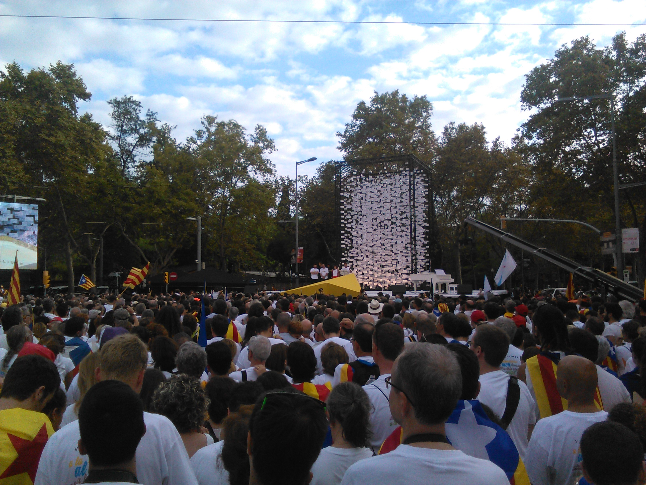 Via Lliure a la República Catalana. A l'escenàri: Gabriel Rufián, Jordi Sánchez, Liz Castro i Quim Torra.